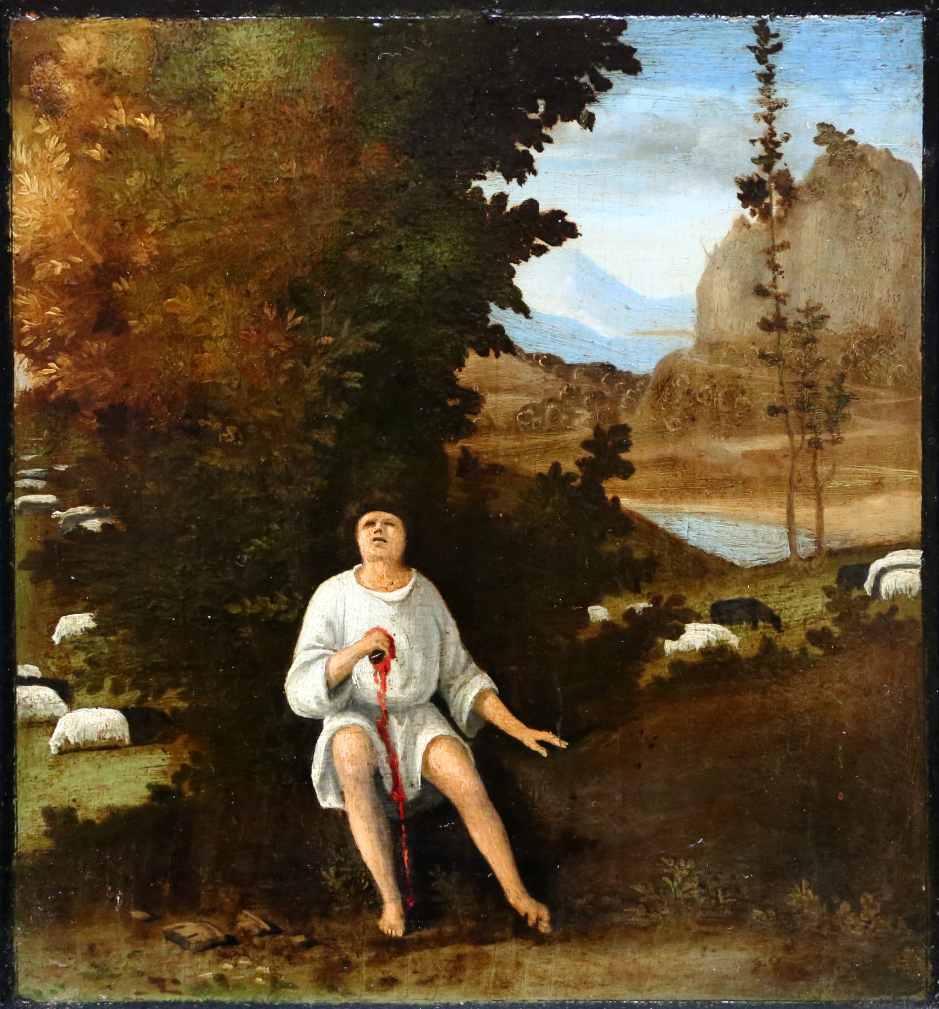 Italian Mannerist paintings in the National Gallery, London